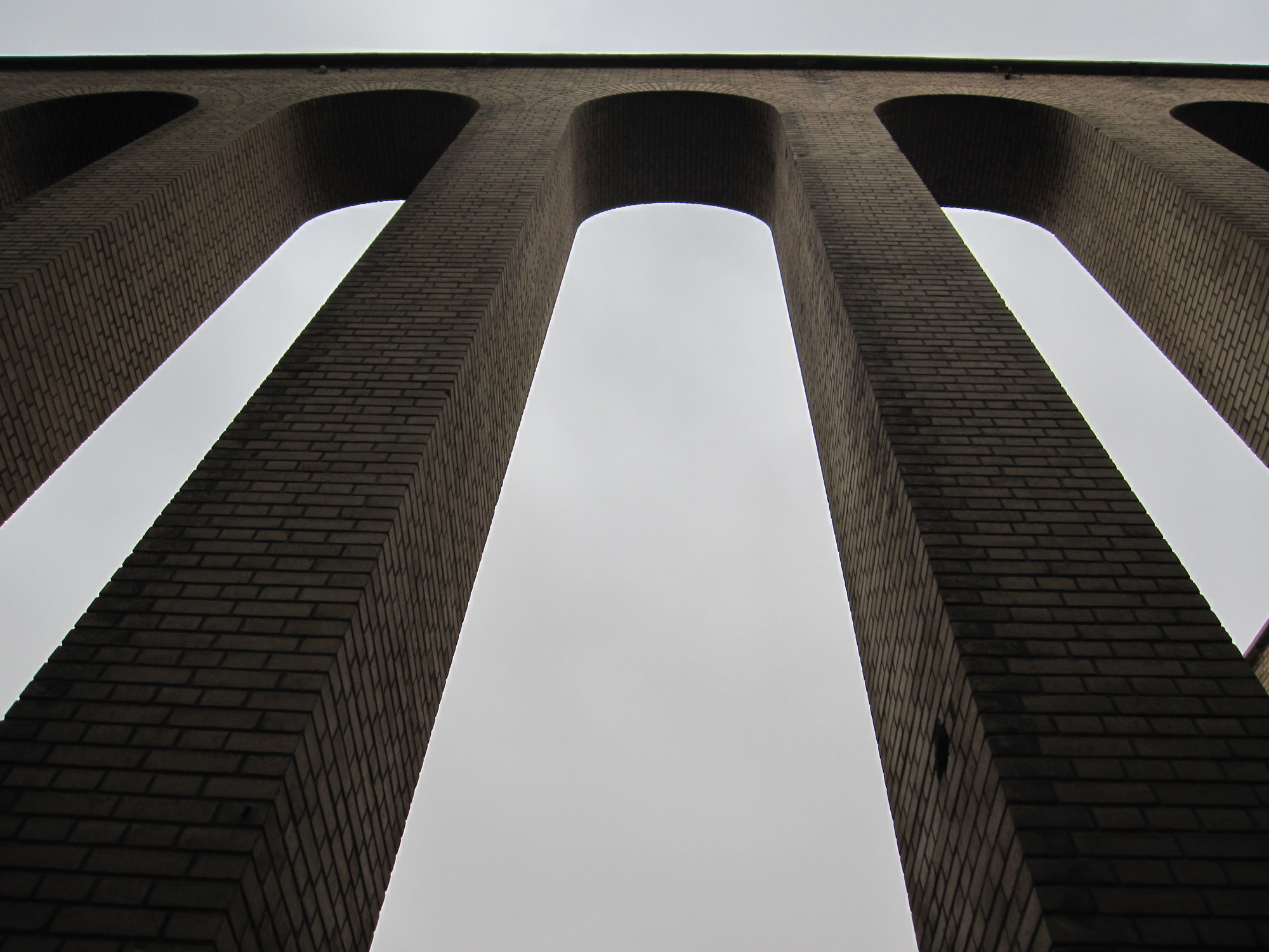 Iran - Ahwaz - Literature university - (Information in page 1)